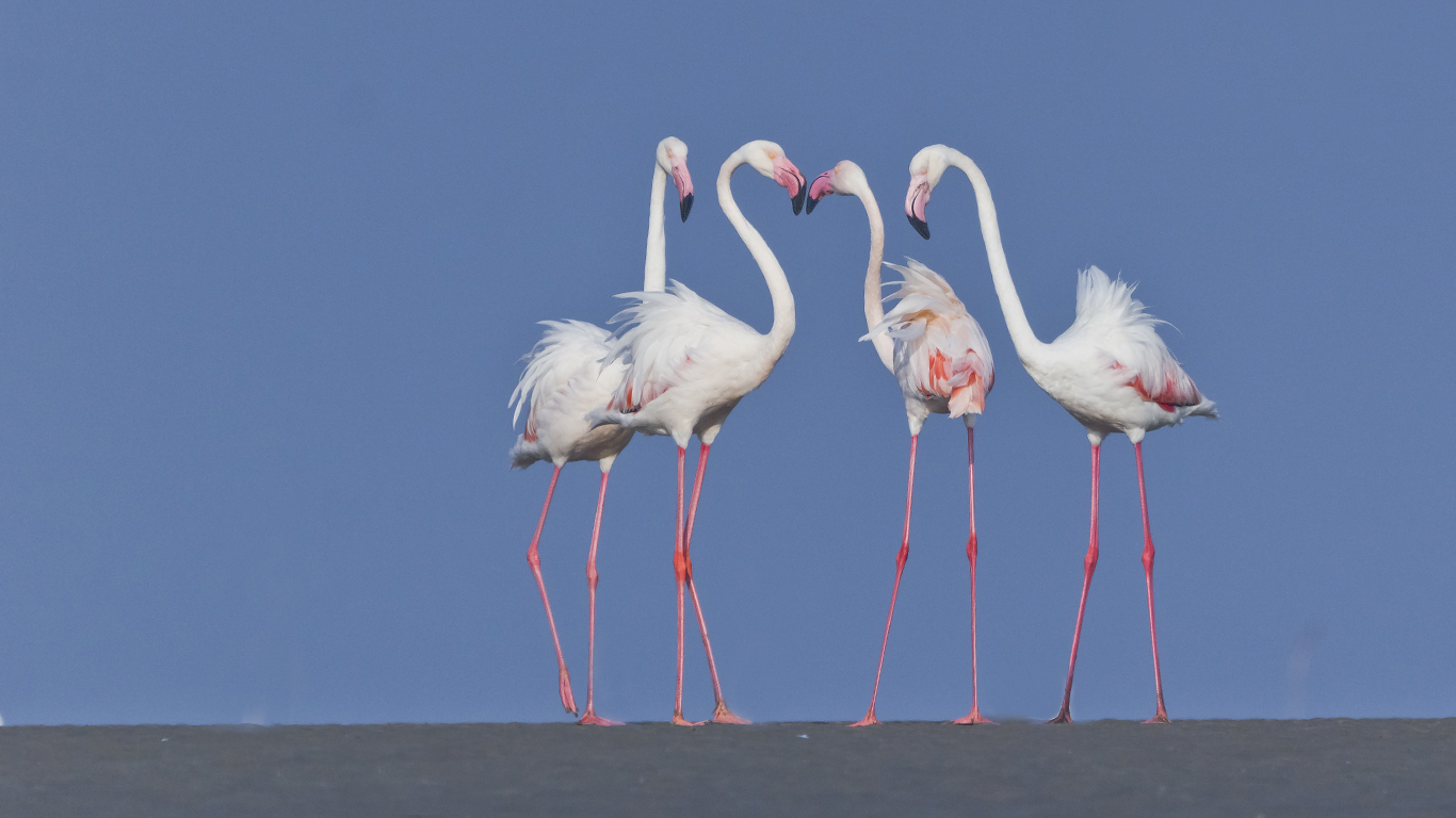 Adults